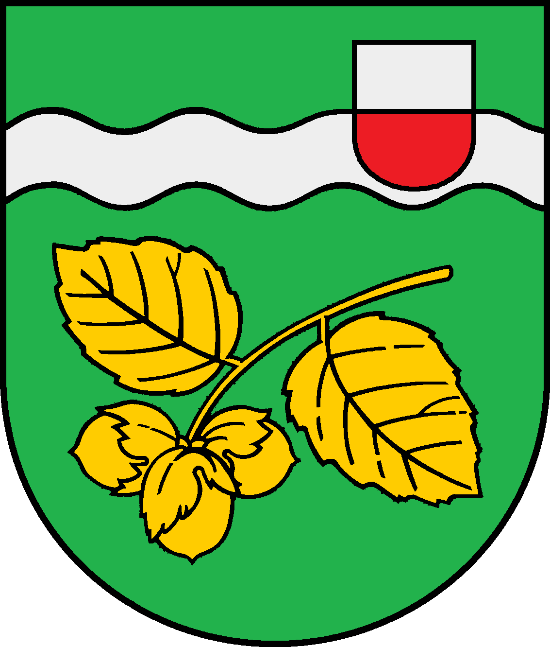 Coat of arms of the municipality Nusse in Schleswig-Holstein, Germany.